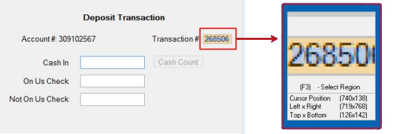 example of screen-scraping, a screen and a red arrow to the capture